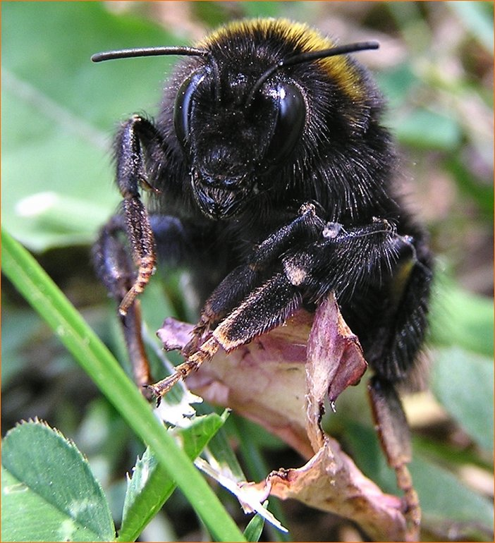 Dark Vador ?? (bourdon terrestre) ("Dark Vador" is the form used for "Darth Vader" when the Star Wars movies are released in France.)